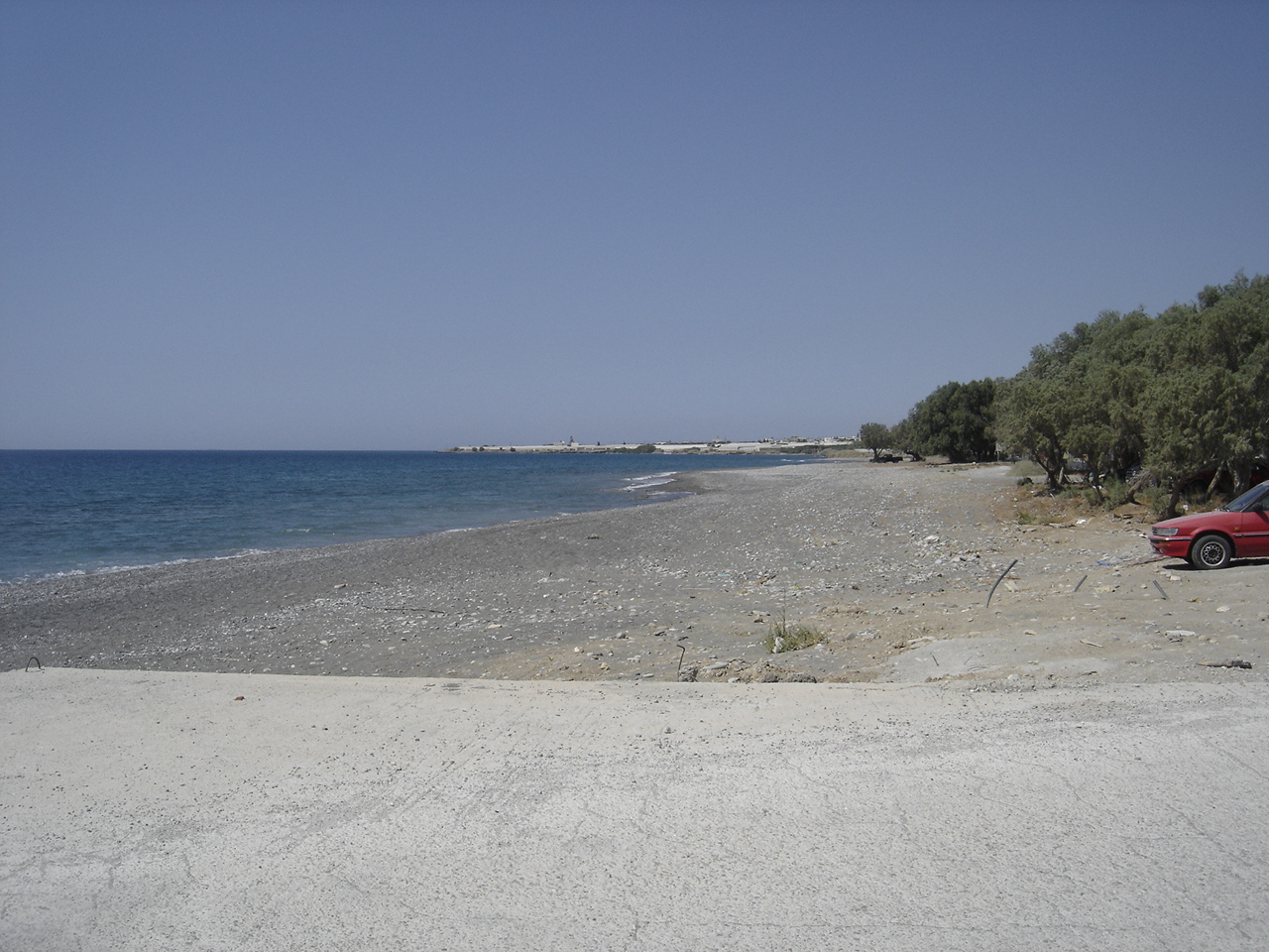 The beach in Gra-Lygia.